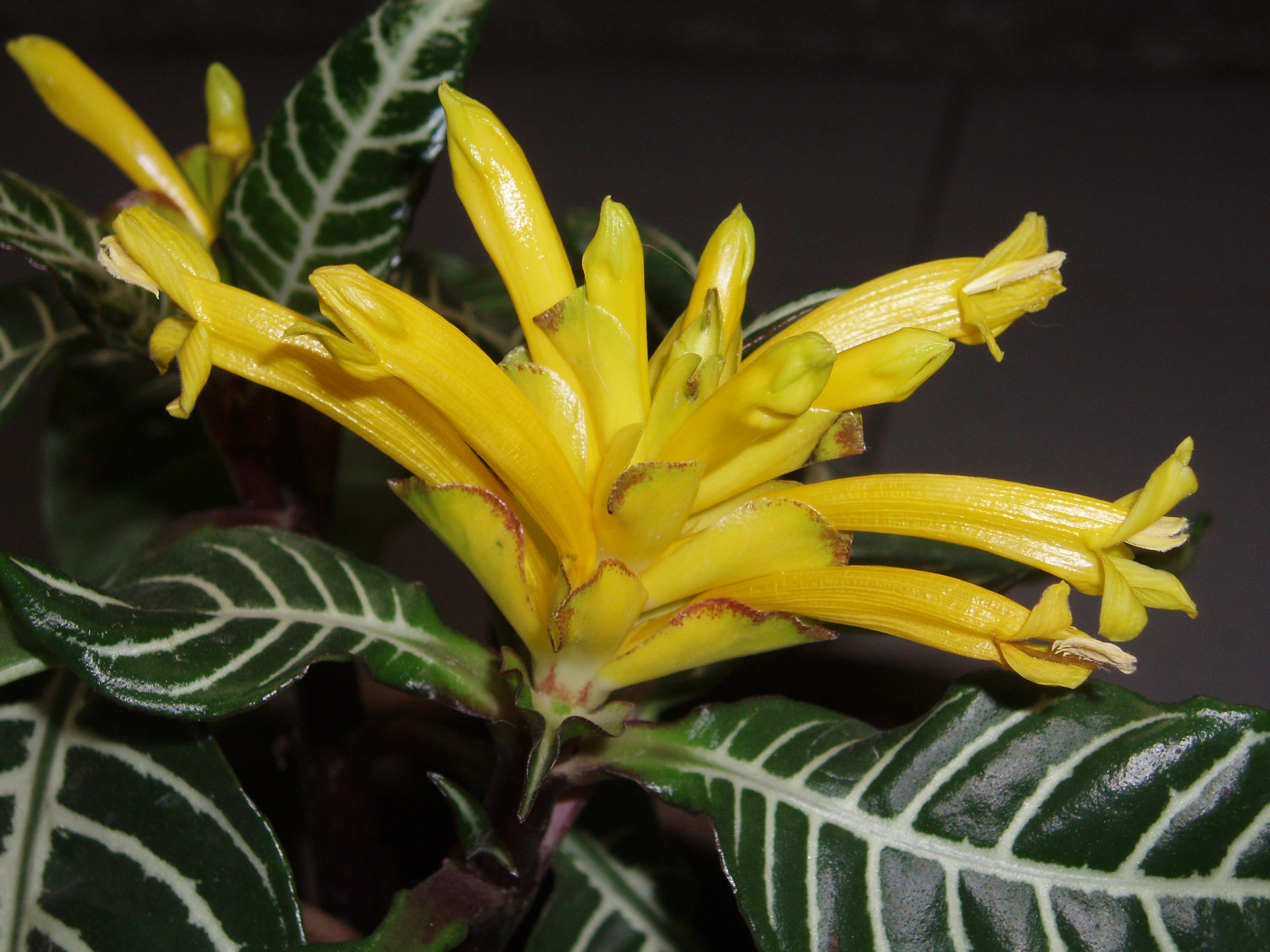 Zebra plant flowers